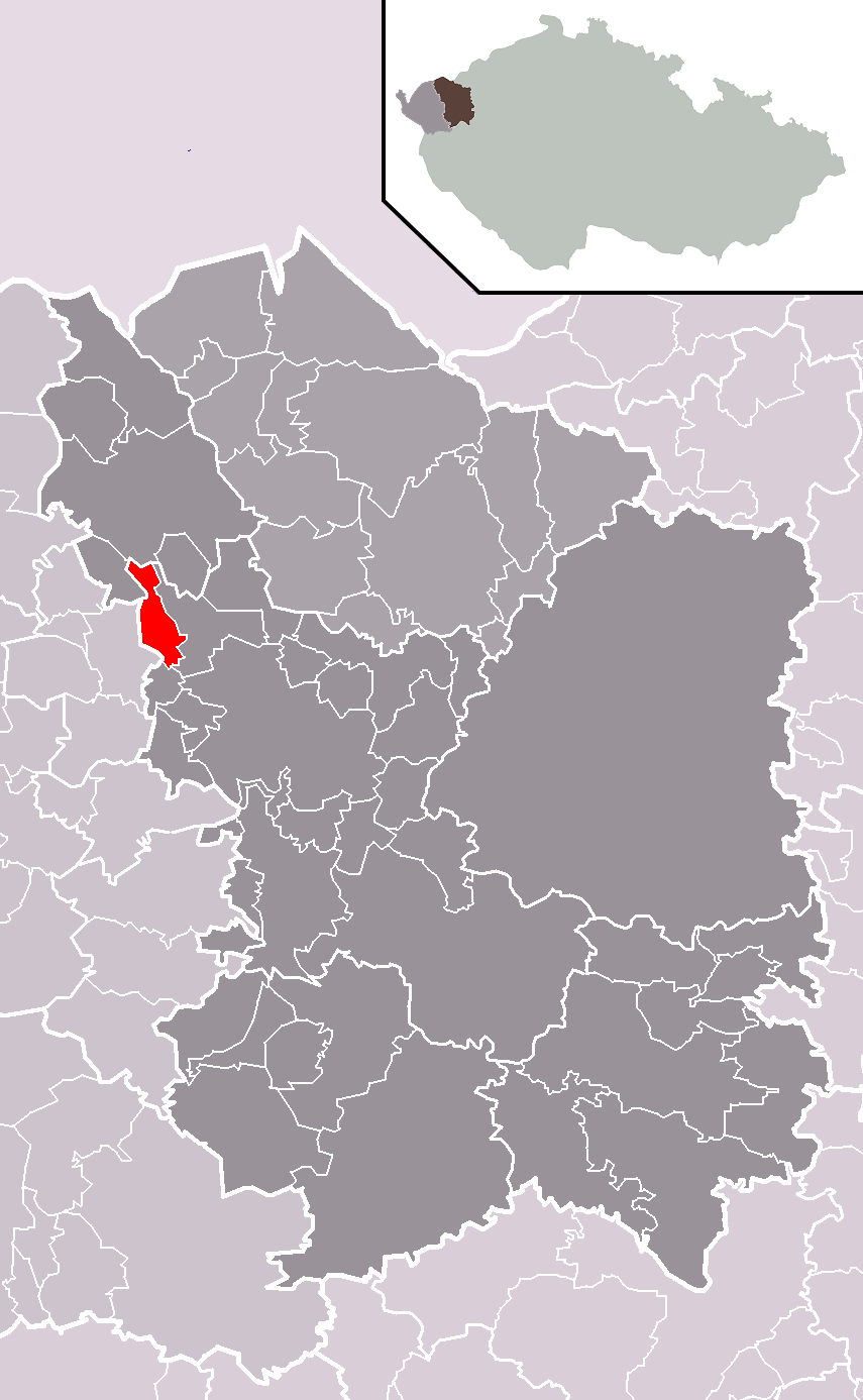 Location of Božičany municipality within Karlovy Vary District and administrative area of Karlovy Vary as a Municipality with Extended Competence.